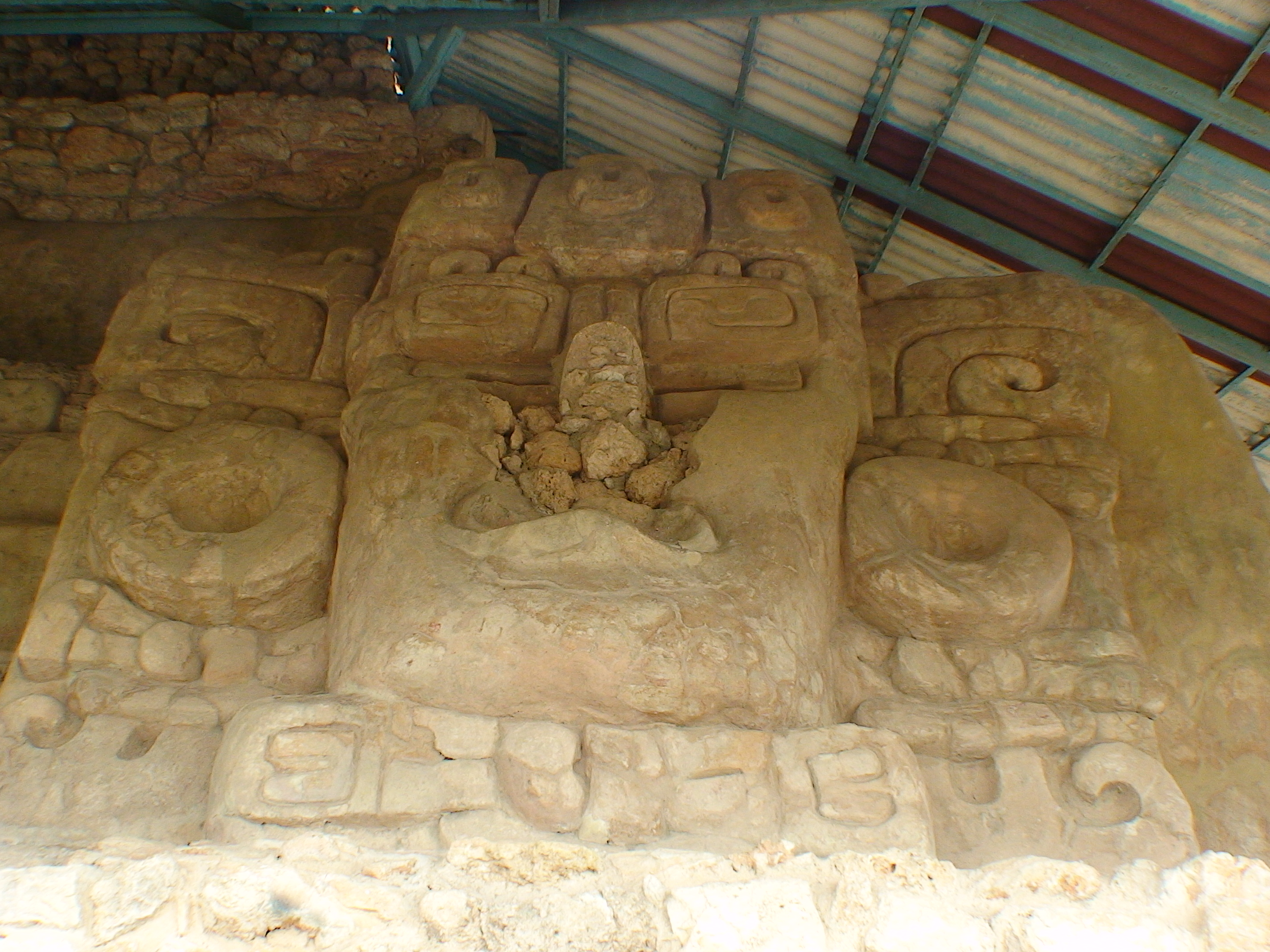 Acanceh, Yucatan, Mexico: Stucco mask at the main pyramid